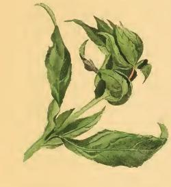 Stainton’s Natural History of the Tineina (1855–1873): Mompha epilobiella a shoot of Epilobium hirsutum disfigured by larva